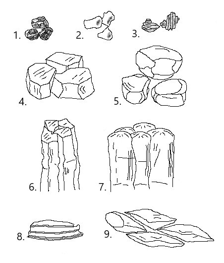 Soil structure: 1. lump/clod 2. granular; 3. coprolite; 4. angular; 5. subangular; 6. prismatic; 7. columnar; 8. platy; 9. wedge Dravn on the base of: "Schematyczne przedstawienie najważniejszych typów struktur agregatowych", The 6-th edition of the Polish Soil Classification (2019), Anex, p. A28.